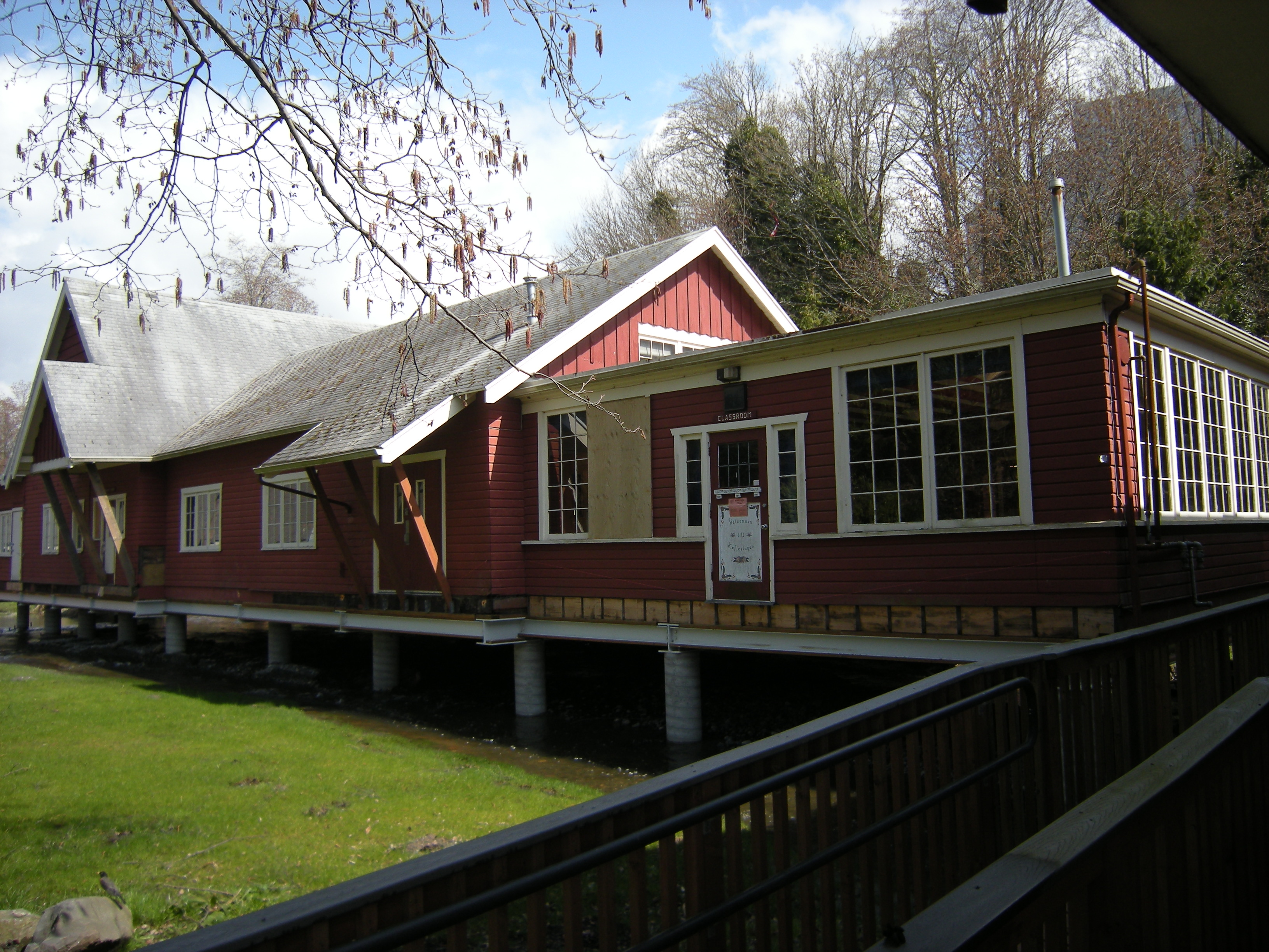 Des Moines Beach Park, Des Moines, Washington. The park is the former Covenant Beach Bible Camp, listed on the National Register of Historic Places. This building is currently undergoing repairs due to flooding (note Des Moines Creek overflowing into the foreground).